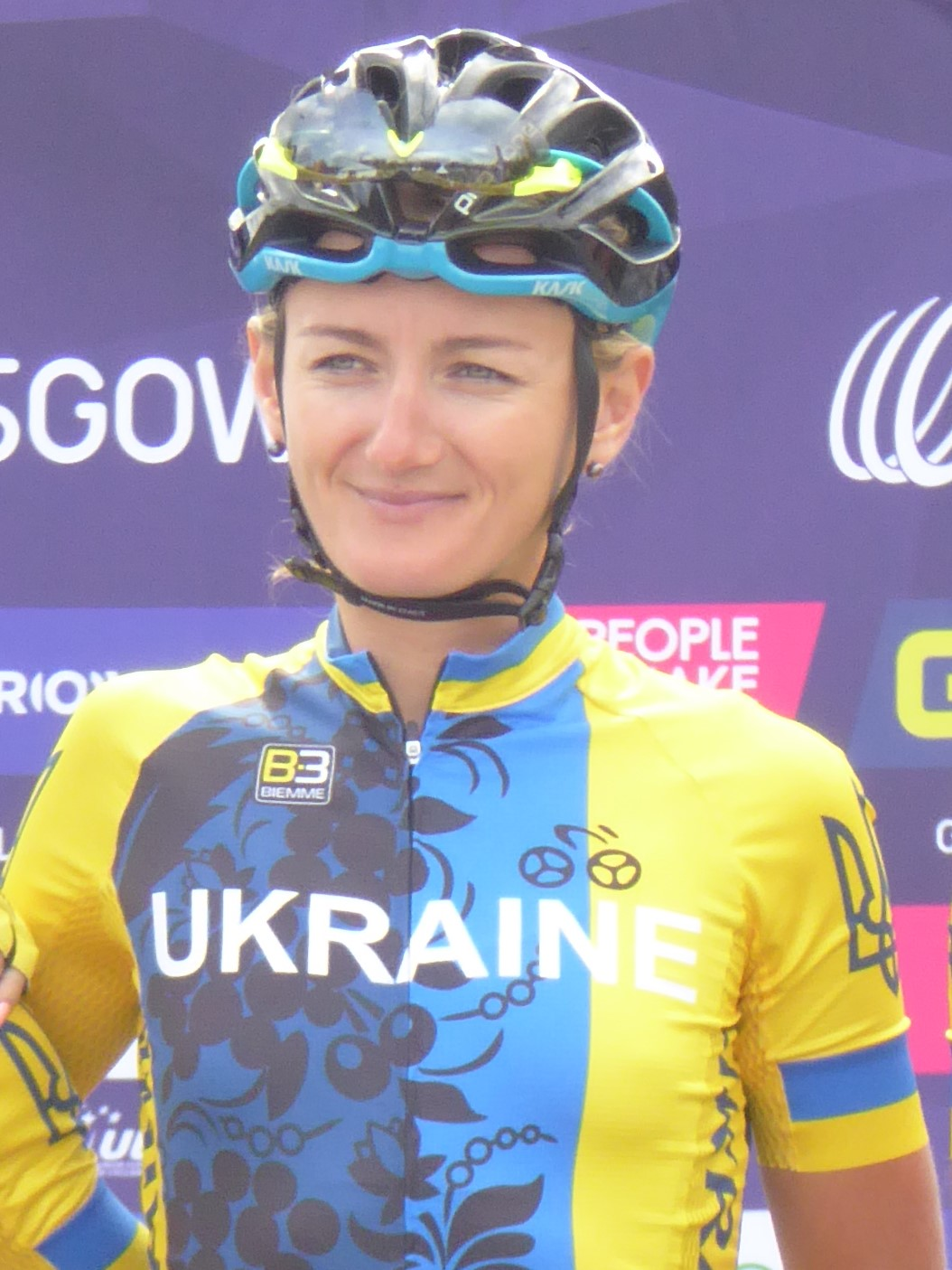 Olena Sharha (Ukraine), prior to the women's road race at the 2018 UEC European Road Cycling Championships in Glasgow.